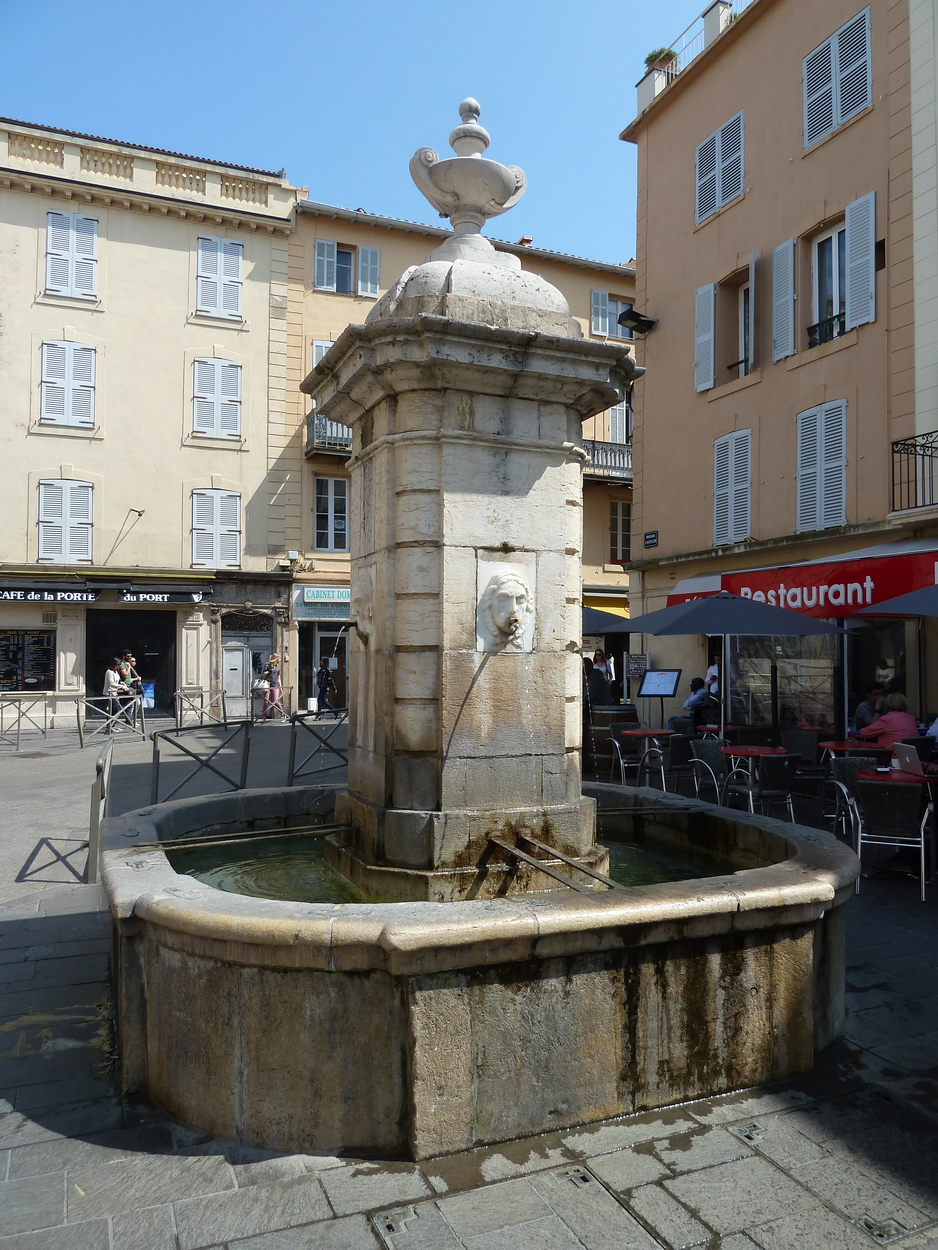 fontaine aguillon